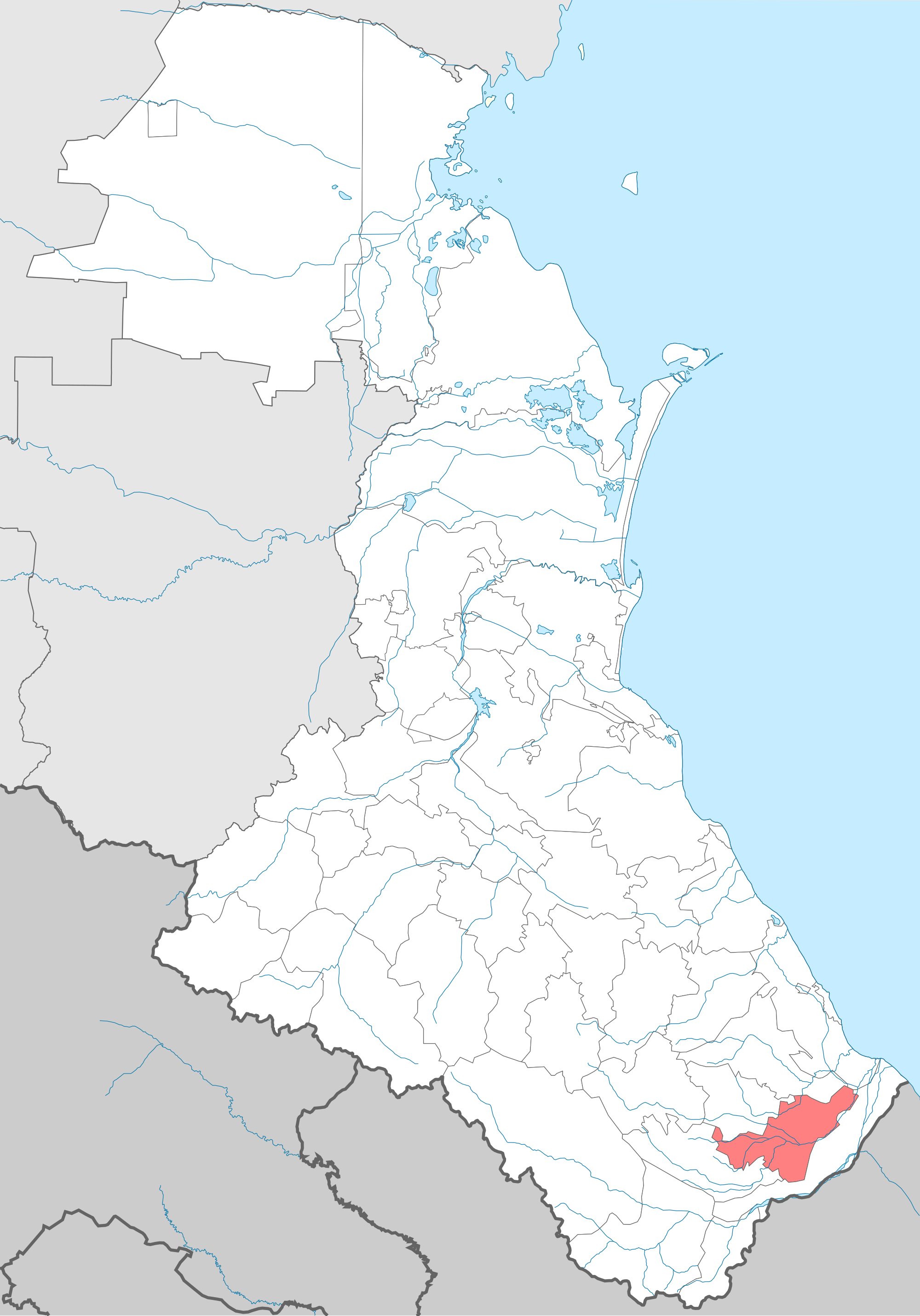 Suleyman-Stalsky district. Locator Map of Dagestan (Russia)